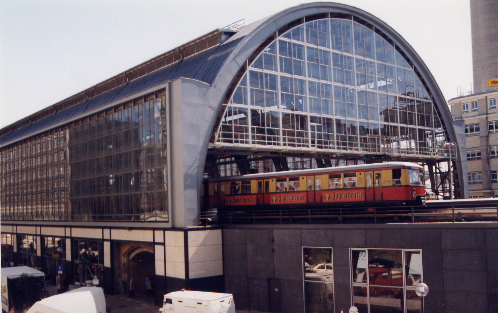 the Berlin train station Alexanderplatz